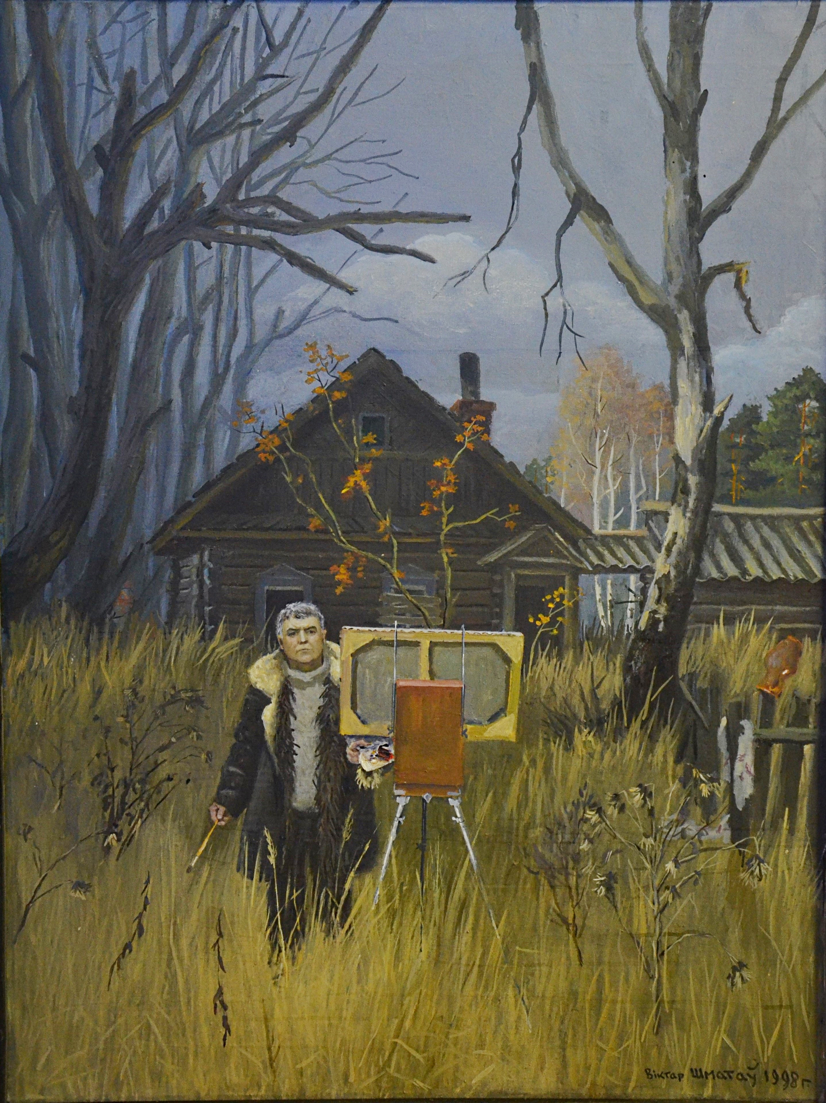 Belarusian artist Viktar Shmataŭ. Self-portrait, 1998. Oil on canvas.